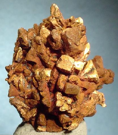 Copper Locality: Central Mine, Central, Keweenaw County, Michigan, USA (Locality at ) Size: 3.5 x 3.5 x 3.5 cm. Cubic copper crystals are a RARE crystal form from the Copper Country of Michigan and this excellent and showy nest of very sharp and lustrous copper crystals with nice patina is LOADED with cubes! This is CLASSIC, OLD-TIME material from the famous Central Mine, which closed in 1898.